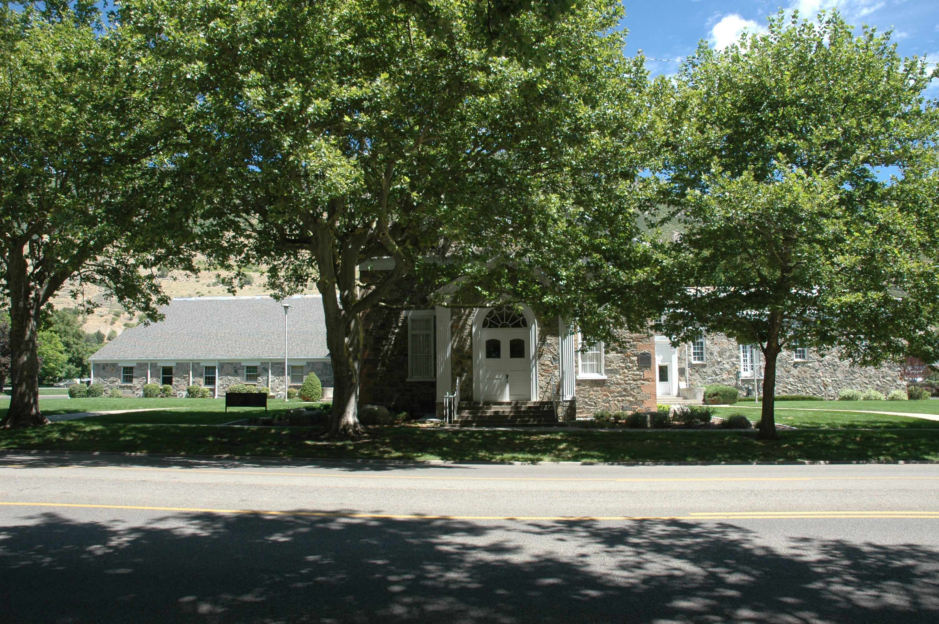 The Farmington Rock Chapel is a meetinghouse of The Church of Jesus Christ of Latter-day Saints in Farmington, Utah, United States. Built in 1863, it is a contributing property in the Farmington Main Street Historic District. It was here that the Church's Primary organization was founded, in 1878.